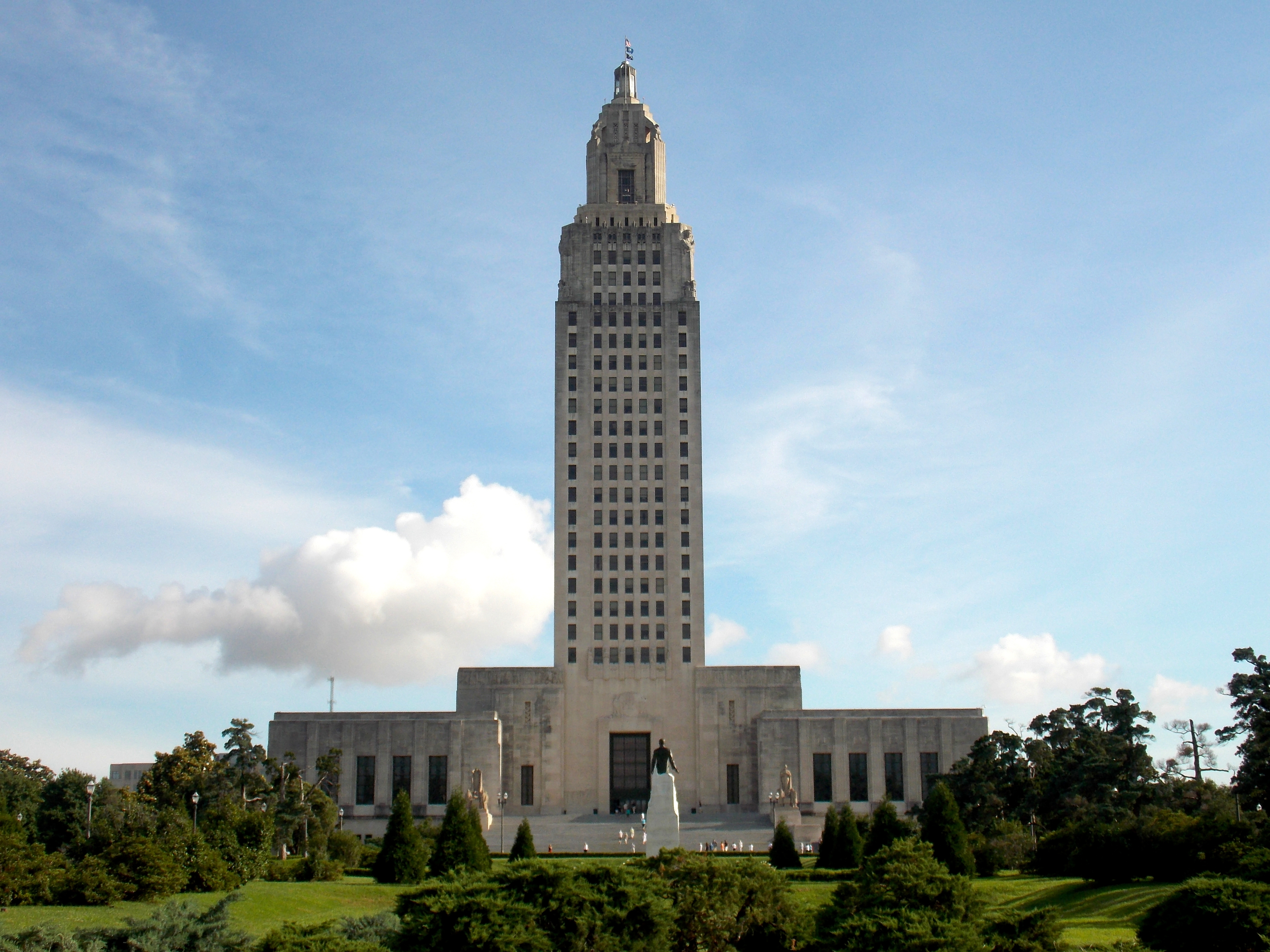 Louisiana State Capitol in Baton Rouge.